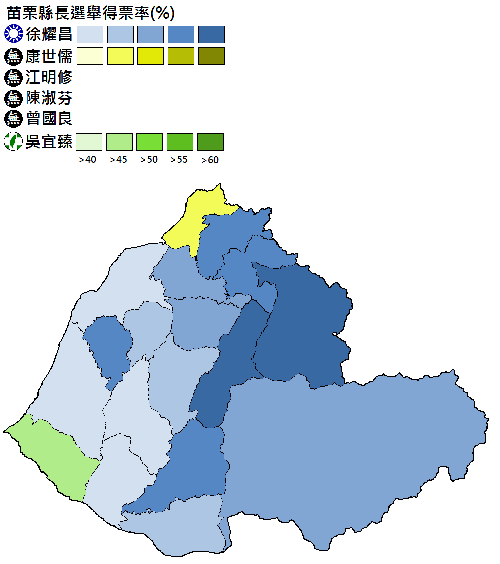 Miaoli 2014